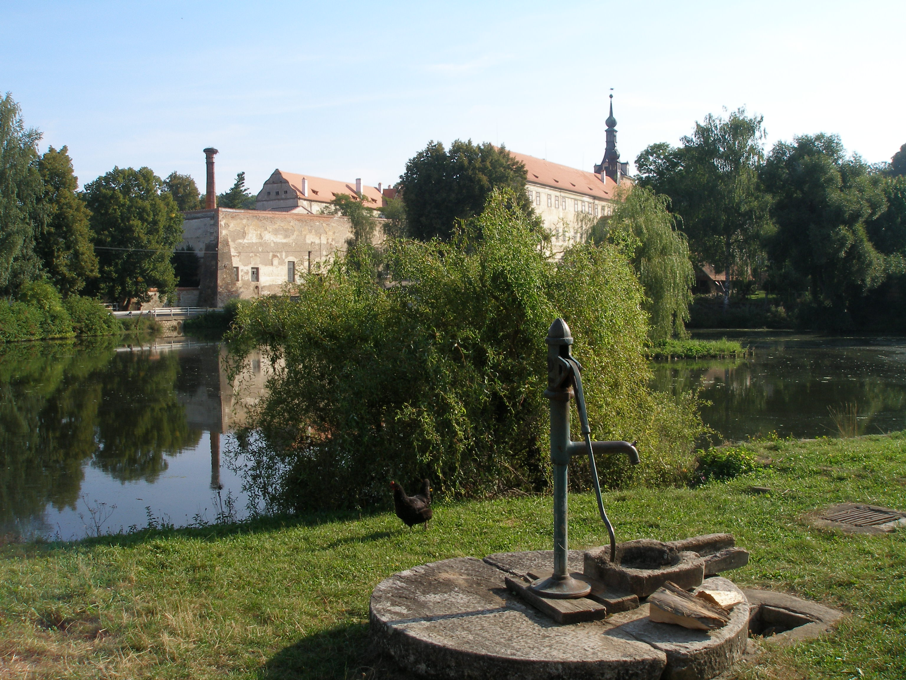 Uherčice (Znojmo district) - view to the castle from the village across the pool